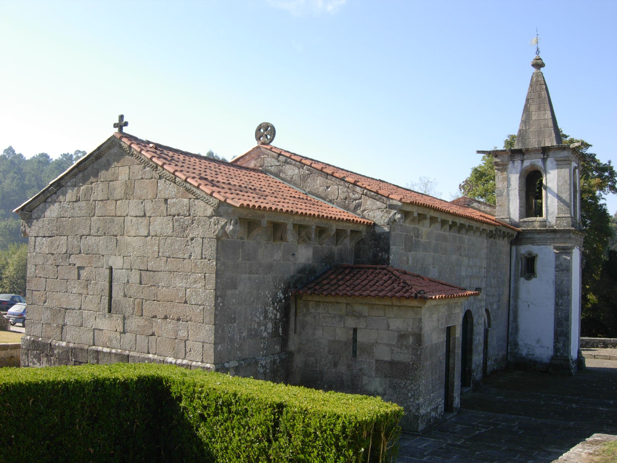 Romanic church fro XIII century